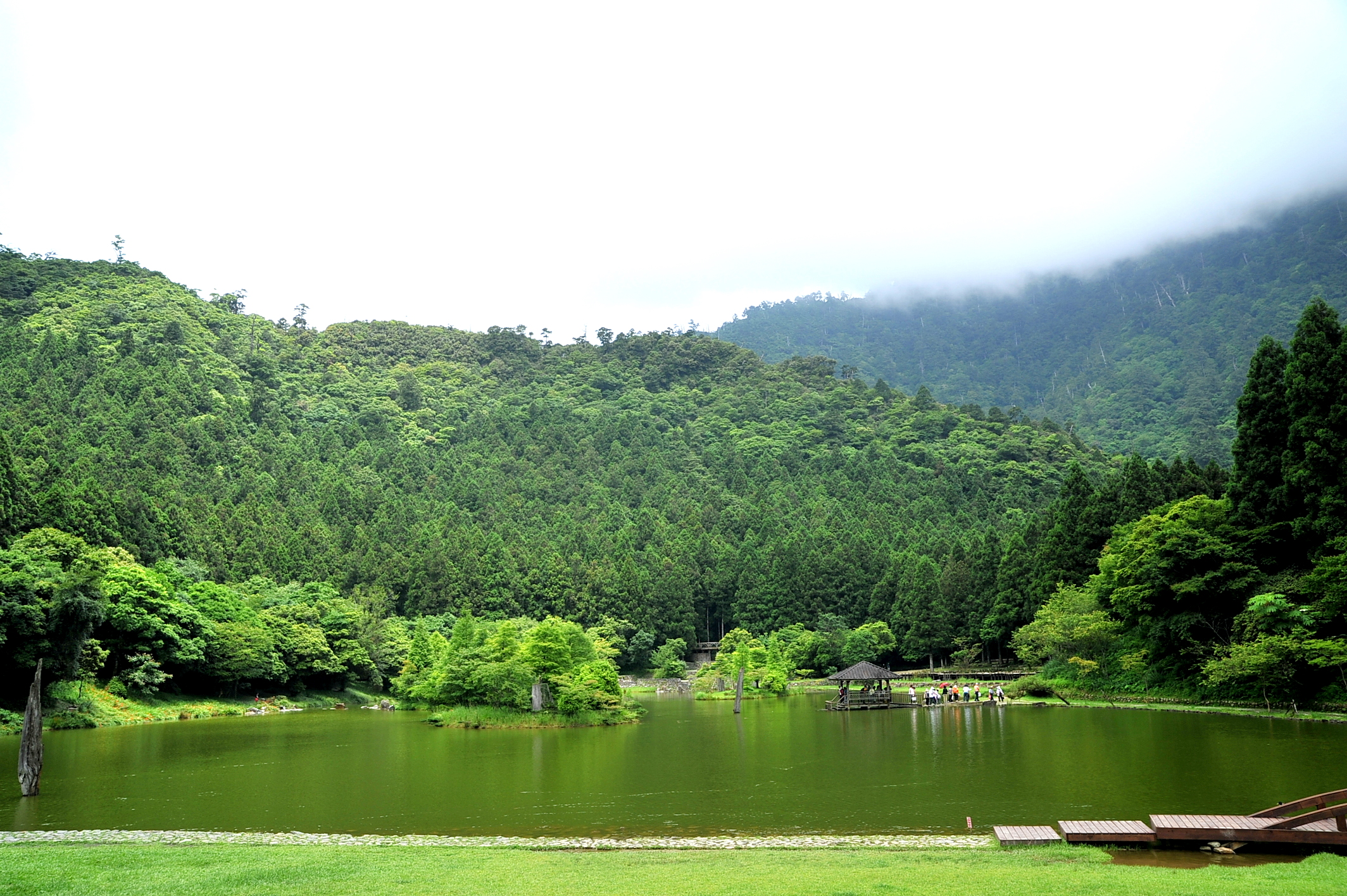 Mingchih literally means "Bright Lake" in Chinese language.